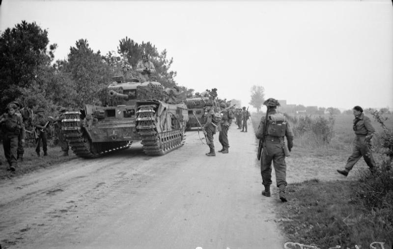 The British Army in North-west Europe 1944-45 Infantry of 2nd Glasgow Highlanders, 15th (Scottish) Division, with Churchill tanks of 6th Guards Tank Brigade, near Moergestel, 26 October 1944.